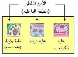 Endoderm